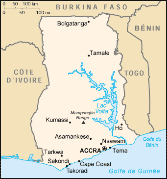 Map in French of Ghana